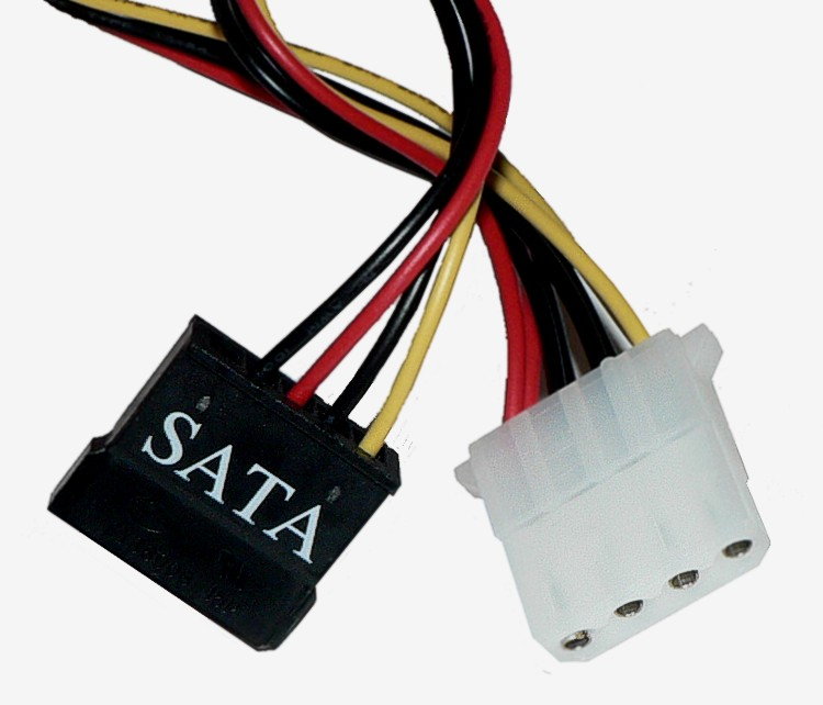 ATX power supply connector